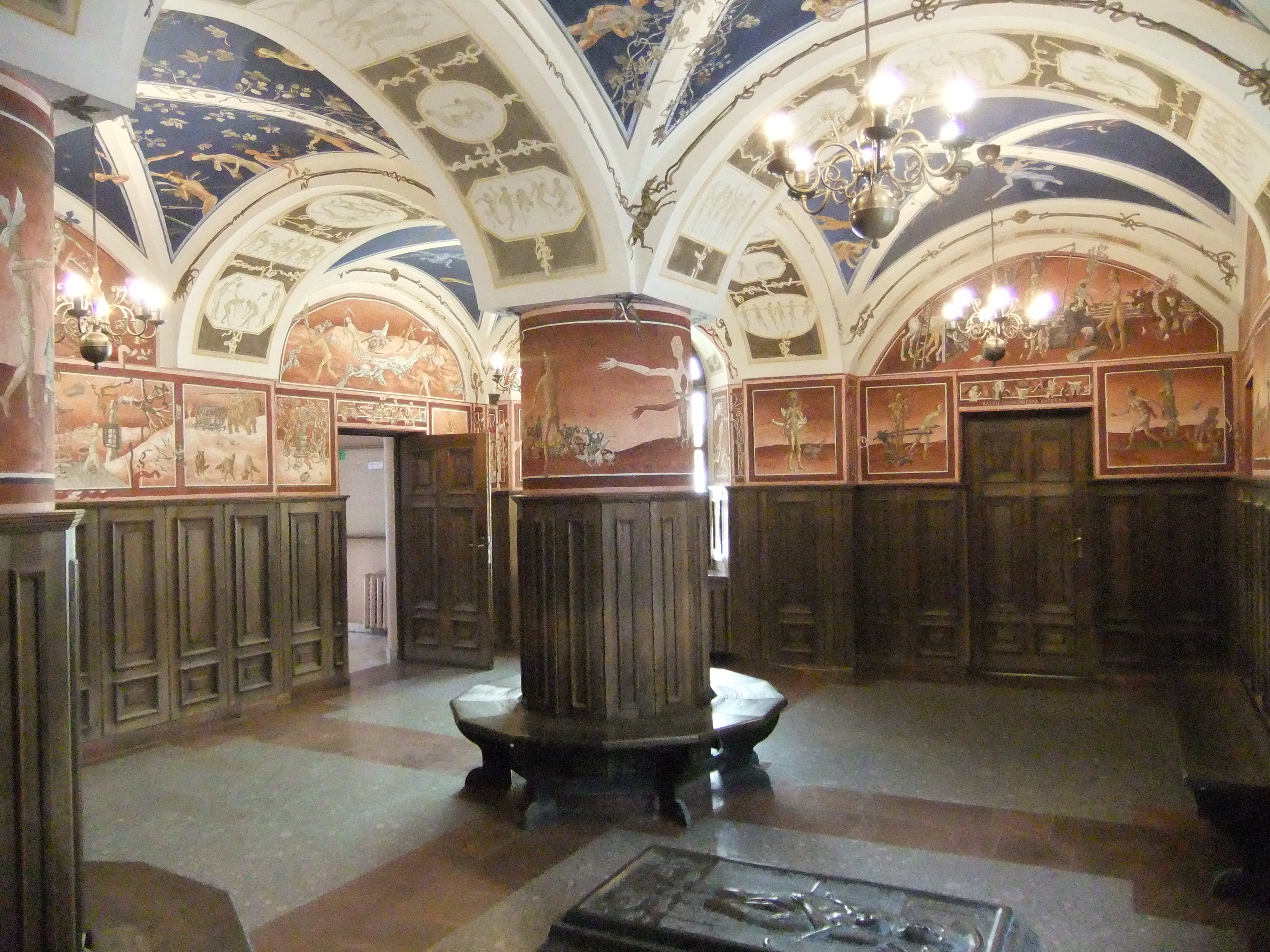 Centre of Lithuanian Studies, Vilnius University